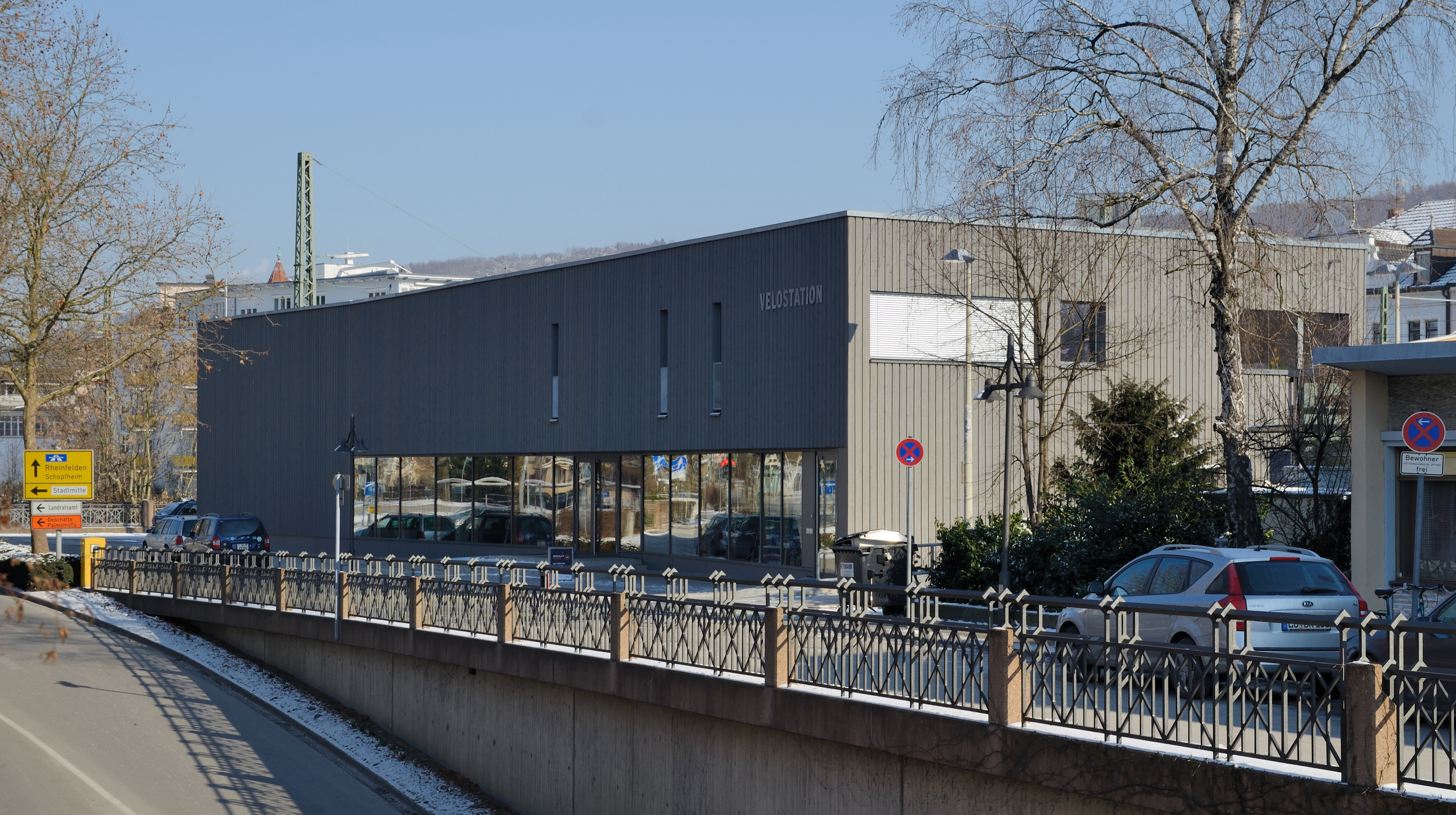 Lörrach: Bicycle parking building at central station